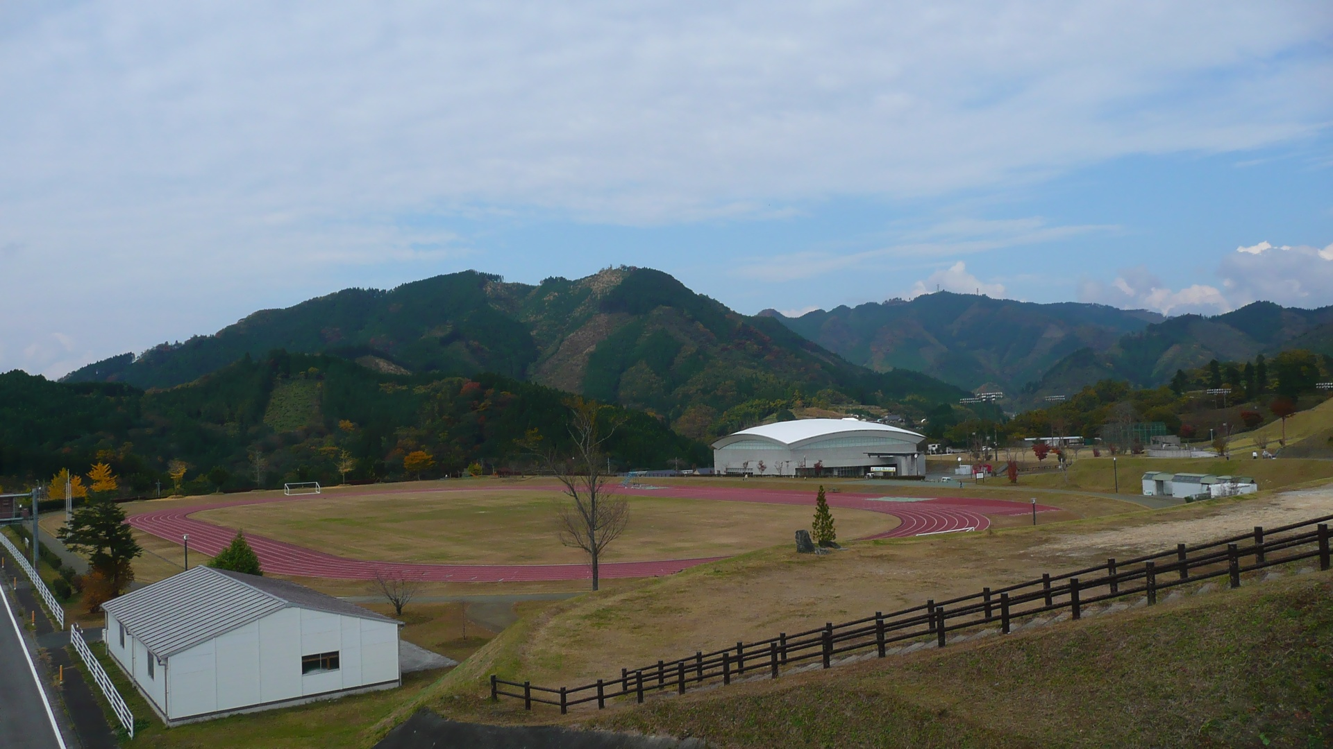 G-Park (Gokase Town, Miyazaki, Japan)